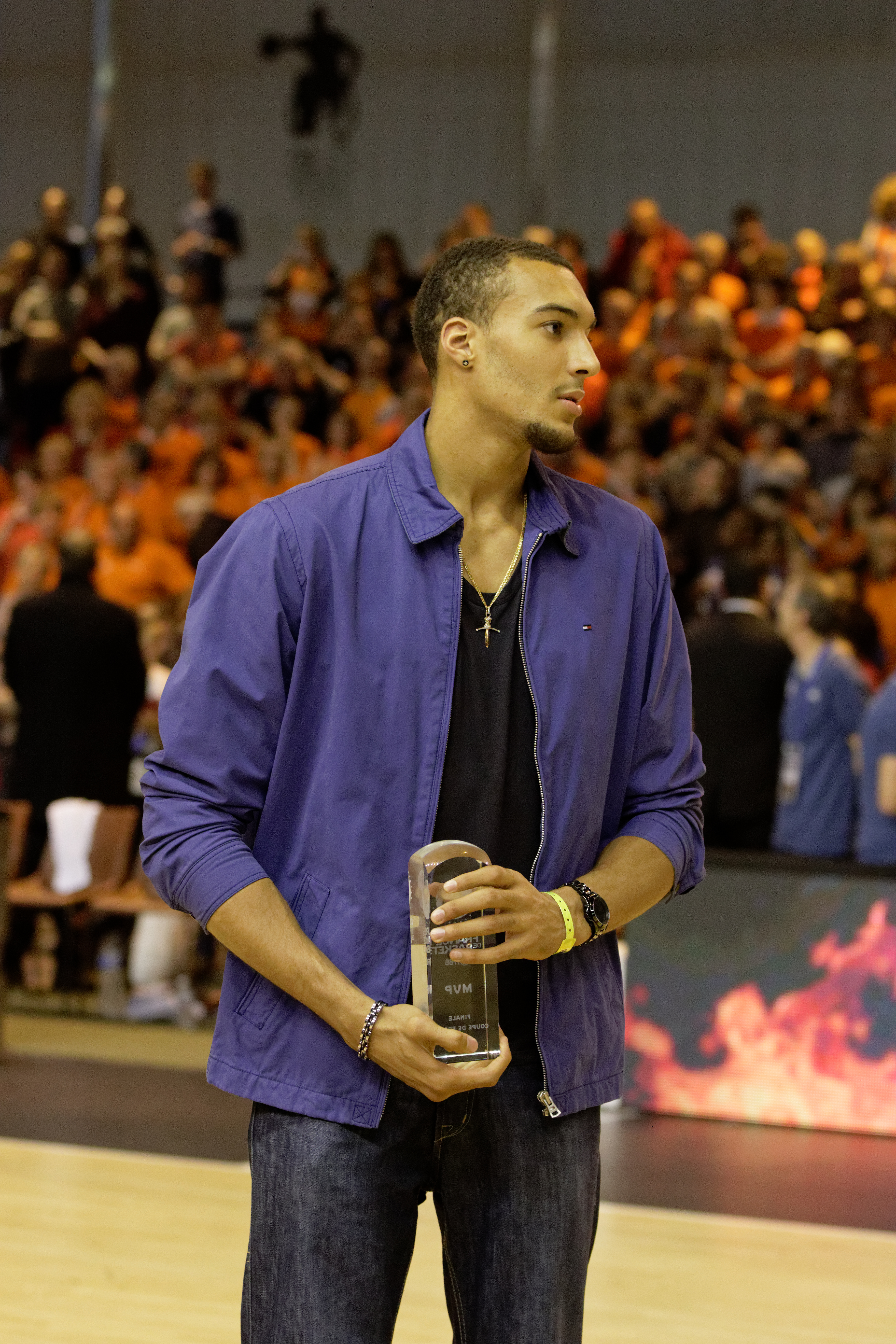 Final of the French Basketball Cup, Lattes-Montpellier vs Bourges, 2nd May 2015.